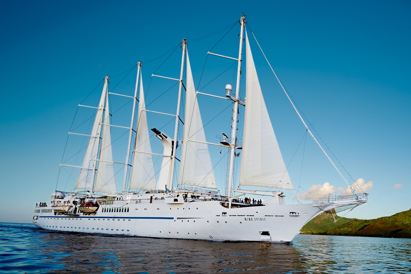 Wind Spirit Cruise Ship